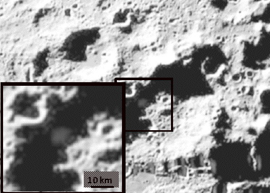 The visible camera of the LCROSS spacecraft image showing the ejecta plume at about 20 seconds after the LCROSS Centaur upper stage impact.